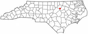 Category:North Carolina Dot Maps